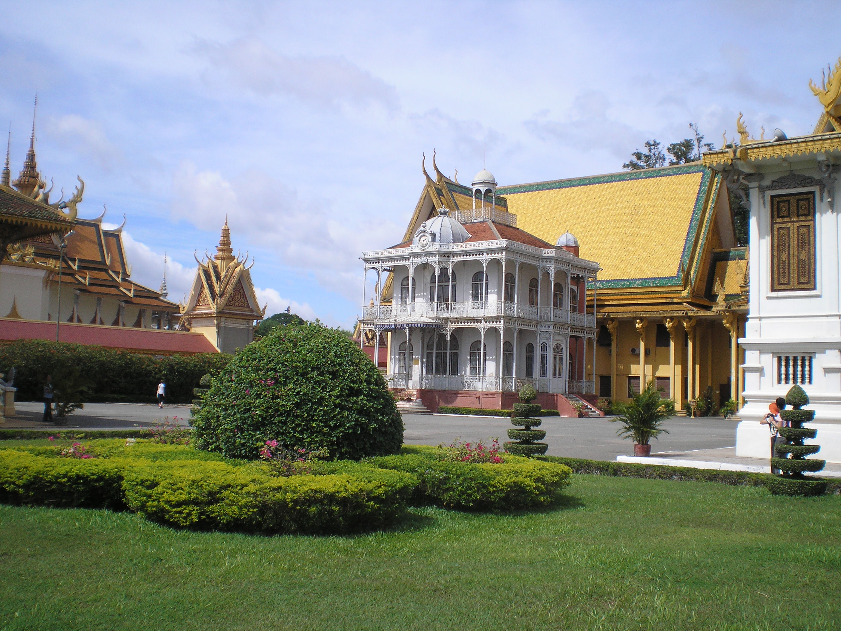 The beautiful French-style building that was a gift from Napoleon III, inside the Royal Palace, Phnom Penh.